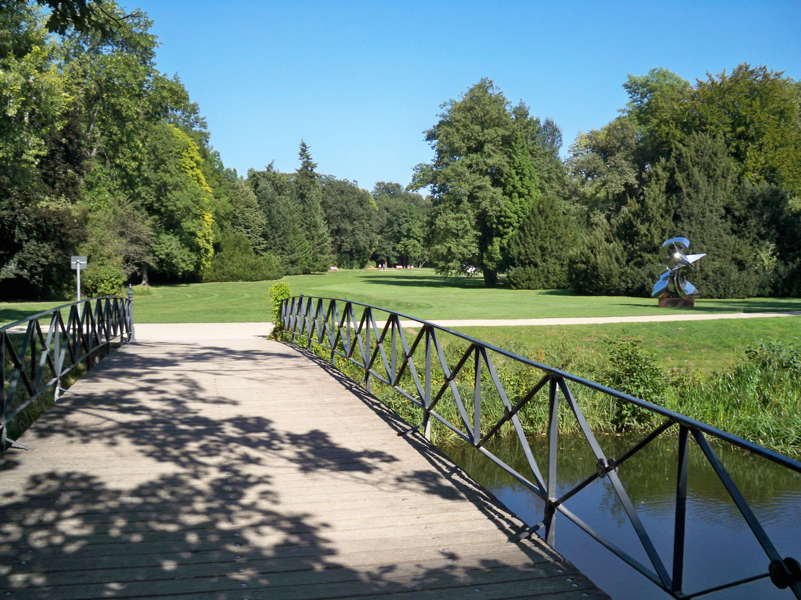 Wolfsburg, Lower Saxony, Castle park with Aller river